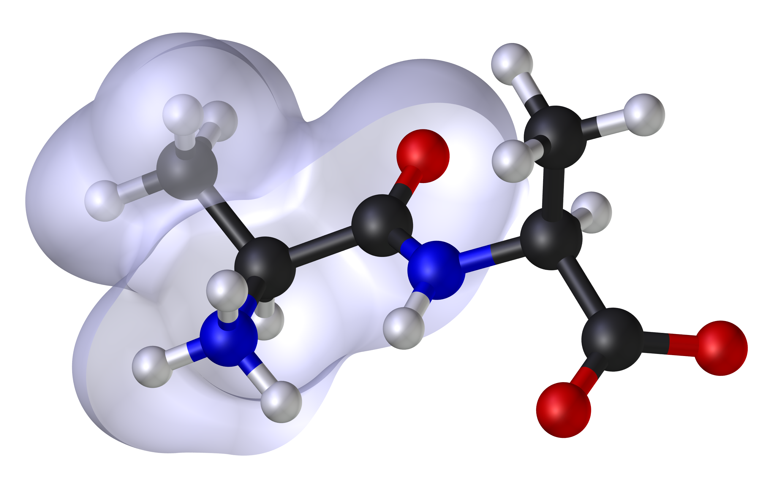 3D render of a molecular model. The molecule is alanine peptide. The shroud represents the region of hydrophobic repulsion, where the strength of the hydrophobic effect is approximately proportional to the surface area of the shroud. The shroud, shown extending only over the back of the molecule extends all the way around it. This diagram can be used to demonstrate the variation in potential energy as bonds shift either in rotation, angle or translation, as seen in the image MM_PEF_3.png.